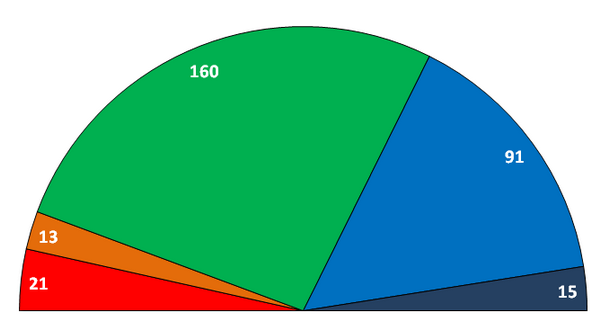 Greek legislative elections, 2009 PASOK: 160 seats Nea Dimokratia: 91 seats KKE: 21 seats LAOS: 15 seats SYRIZA: 13 seats